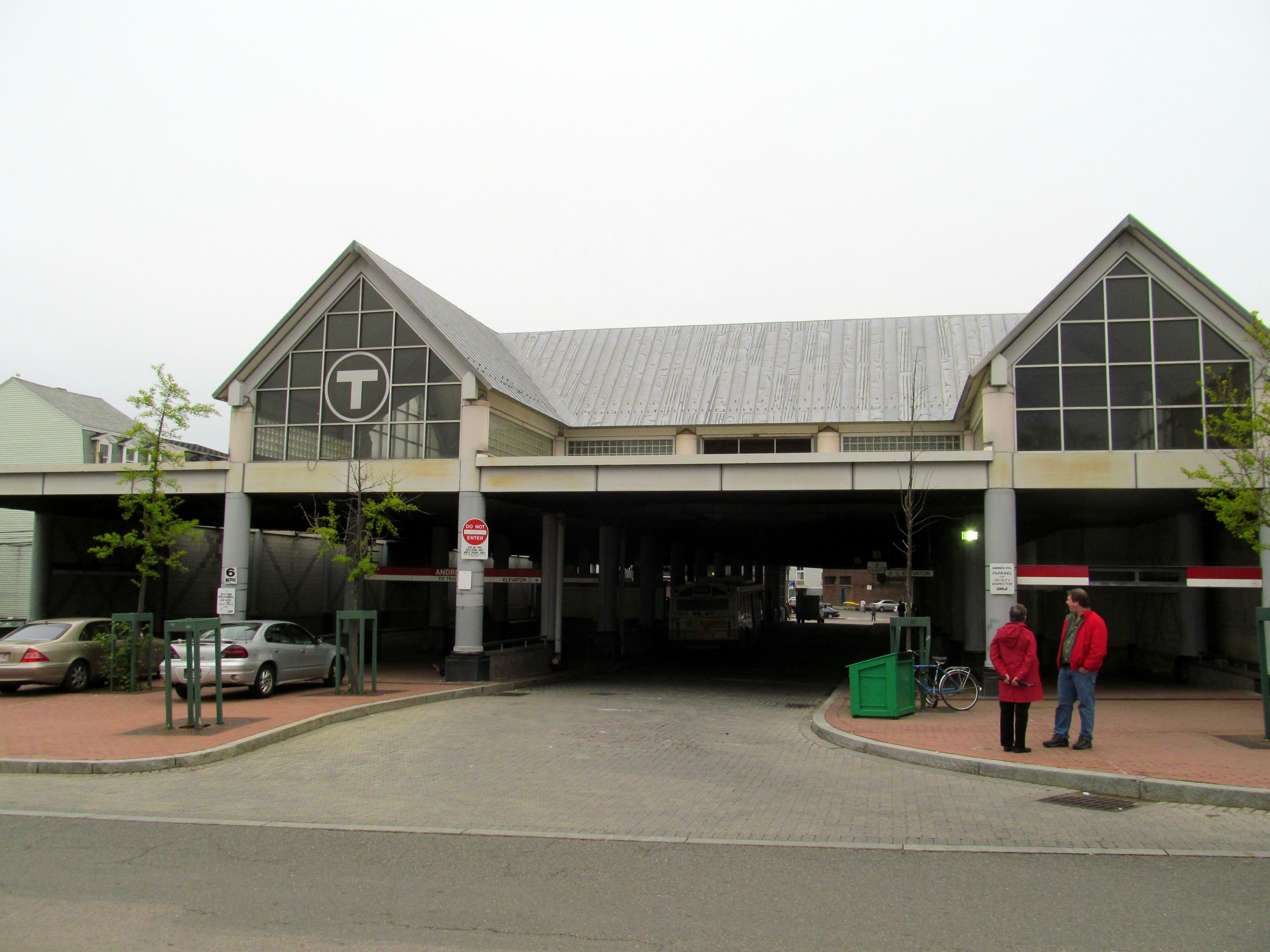 Busway at Andrew station, looking east